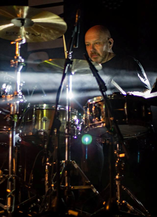 German singer Peter Heppner with Band during the "Confessions & Doubts Tour 2018" at Alte Spinnerei Glauchau, Germany.